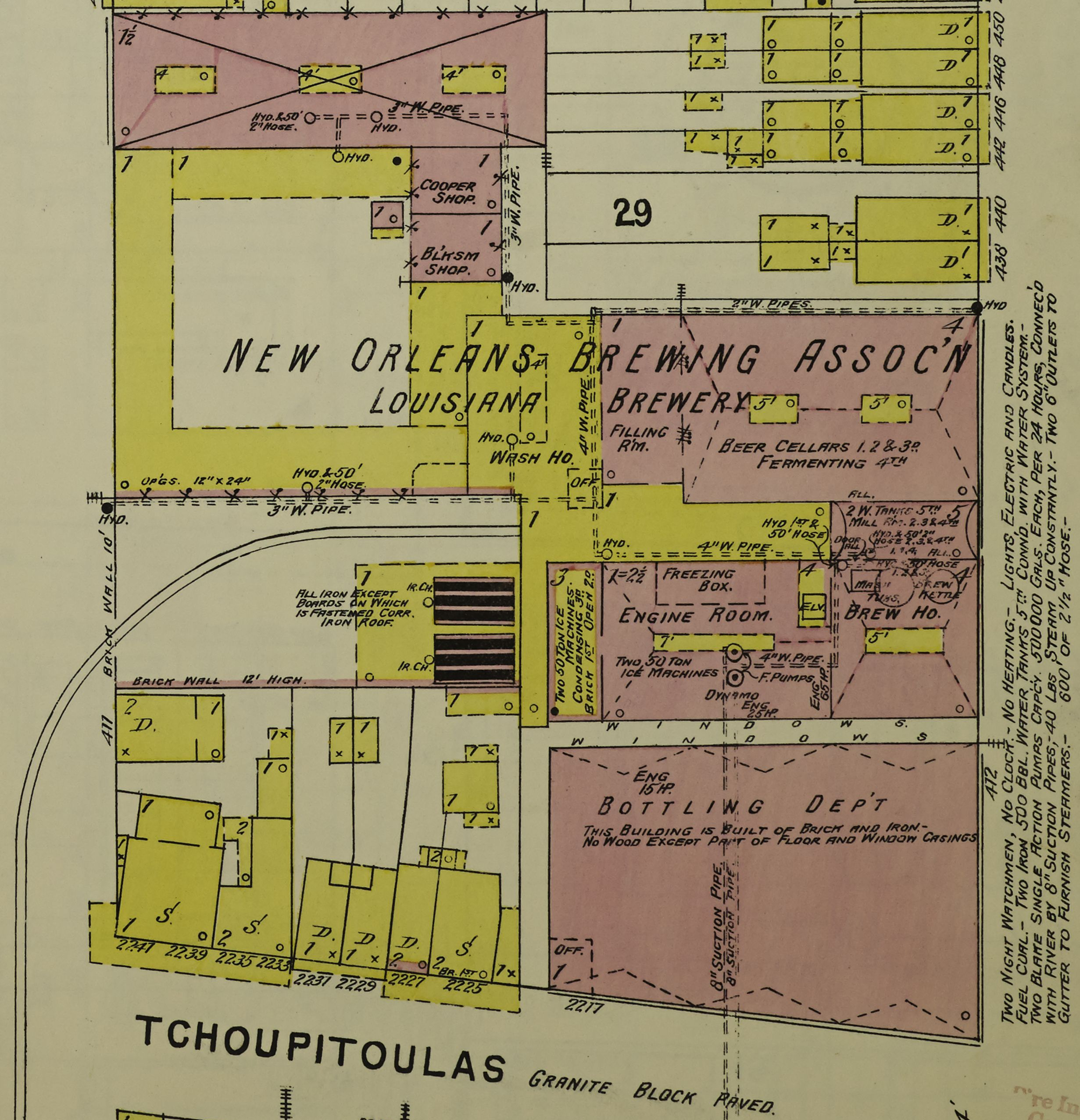 1896; Vol. 3. 110 Sheet(s). Bound.